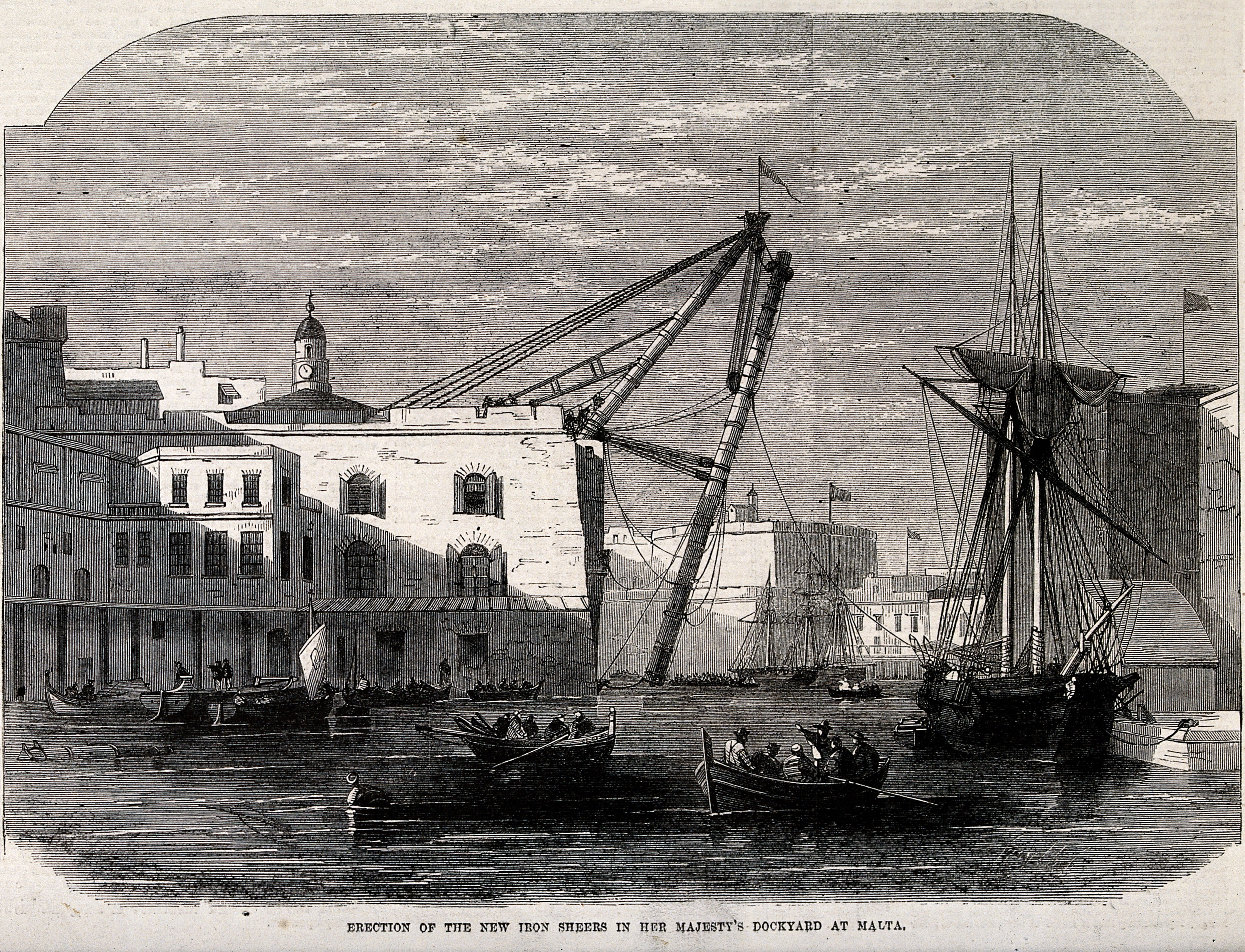 Malta: view of the Naval dockyard with heavy lifting gear newly installed.. Wood engraving, 1865, after J. Kiddie. Iconographic Collections Keywords: James Kiddie